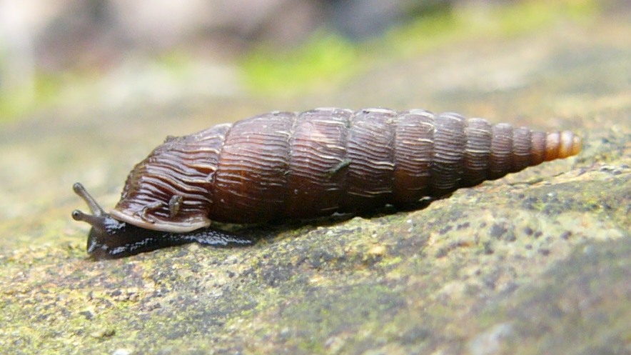 live specimen of Laciniaria plicata. Locality: garden in Táboritů street in Olomouc, the Czech Republic. Determined by Michal Maňas according shell after taking the photo.